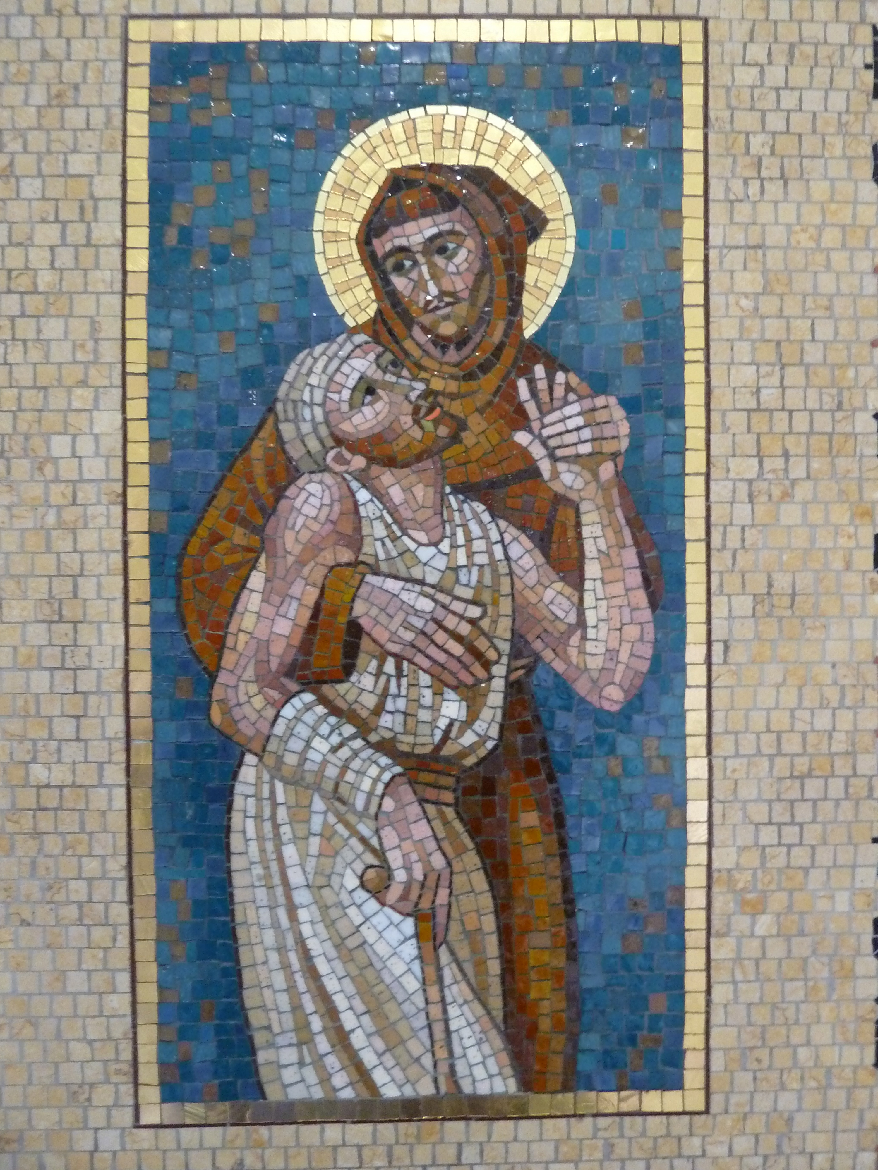 OFM General Curia : Mosaic Saint Francis of Assis and the Leper